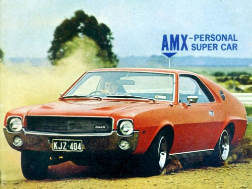 Part of a public relations promotion piece, sales brochure, and advertisement for the 1969 American Motors (AMC) AMX two-seat high-performance automobile that was assembled in Australia by Australian Motor Industries and marketed as the Rambler AMX. Note the right-hand-drive position of the driver and the associated modifications (compared with standard U.S. models) to the windshield wipers, different outside rear-view mirrors, black finish inside the circle for the "AMX" logo on the C-pillar, etc.